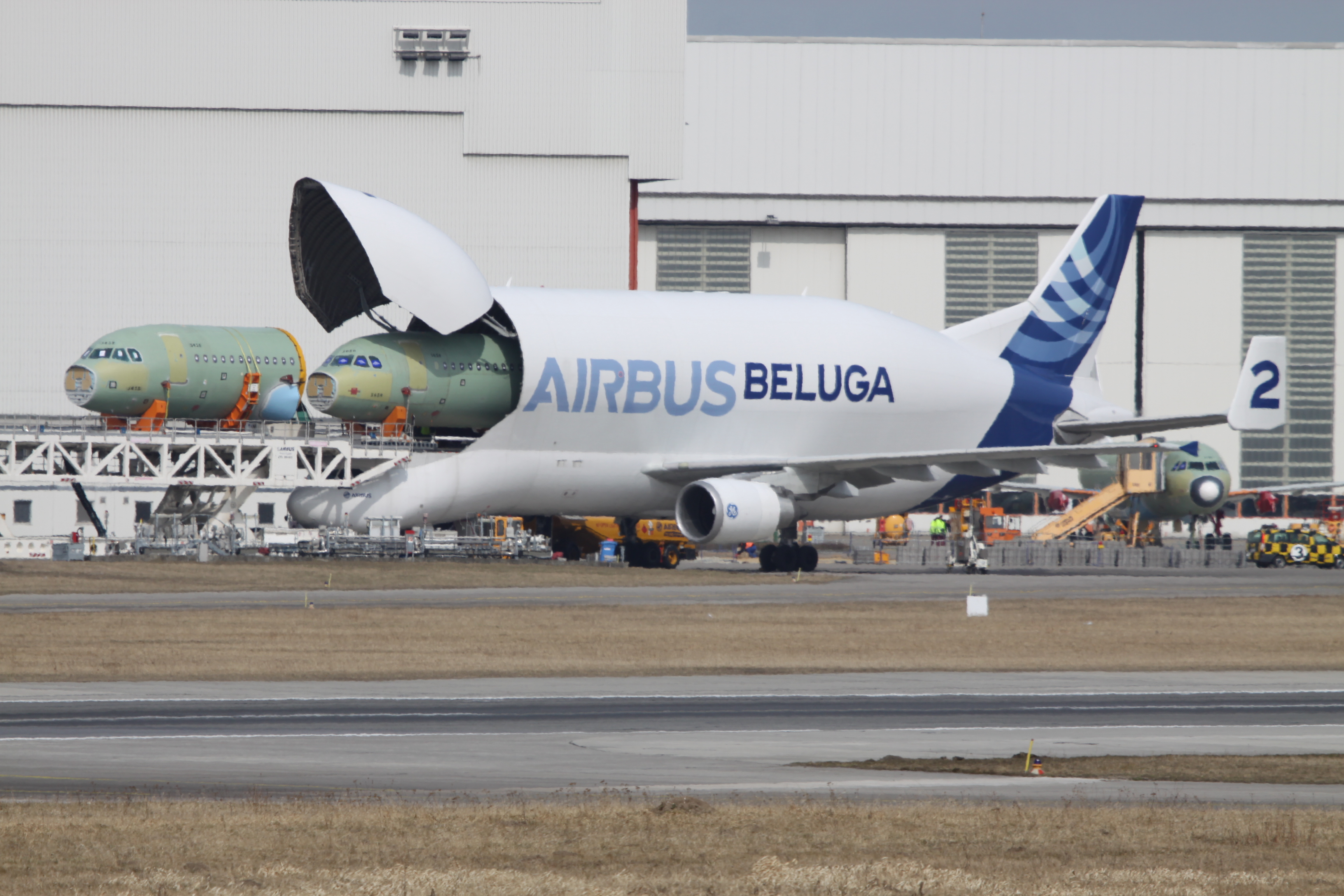 Airbus A300-600ST "Beluga" at Hamburg Finkenwerder. Unloading nose components. Other photographs in this sequence : File:F-GSTB - 2 Airbus A.300B4-608ST Beluga Airbus (8634661768).jpg File:F-GSTB - 2 Airbus A.300B4-608ST Beluga Airbus (8633550771).jpg